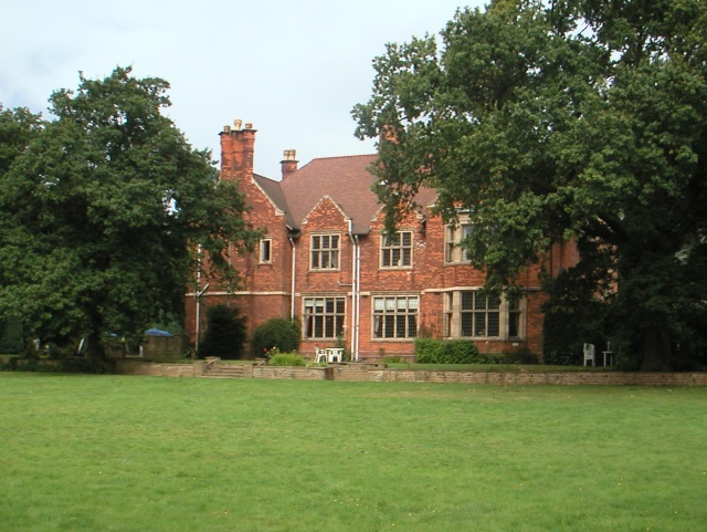 Moxhull Hall, nr Wishaw. Moxhull Hall was built at the turn of the last century and the old hall, Moxhull Park had been burned down in somewhat mysterious circumstances